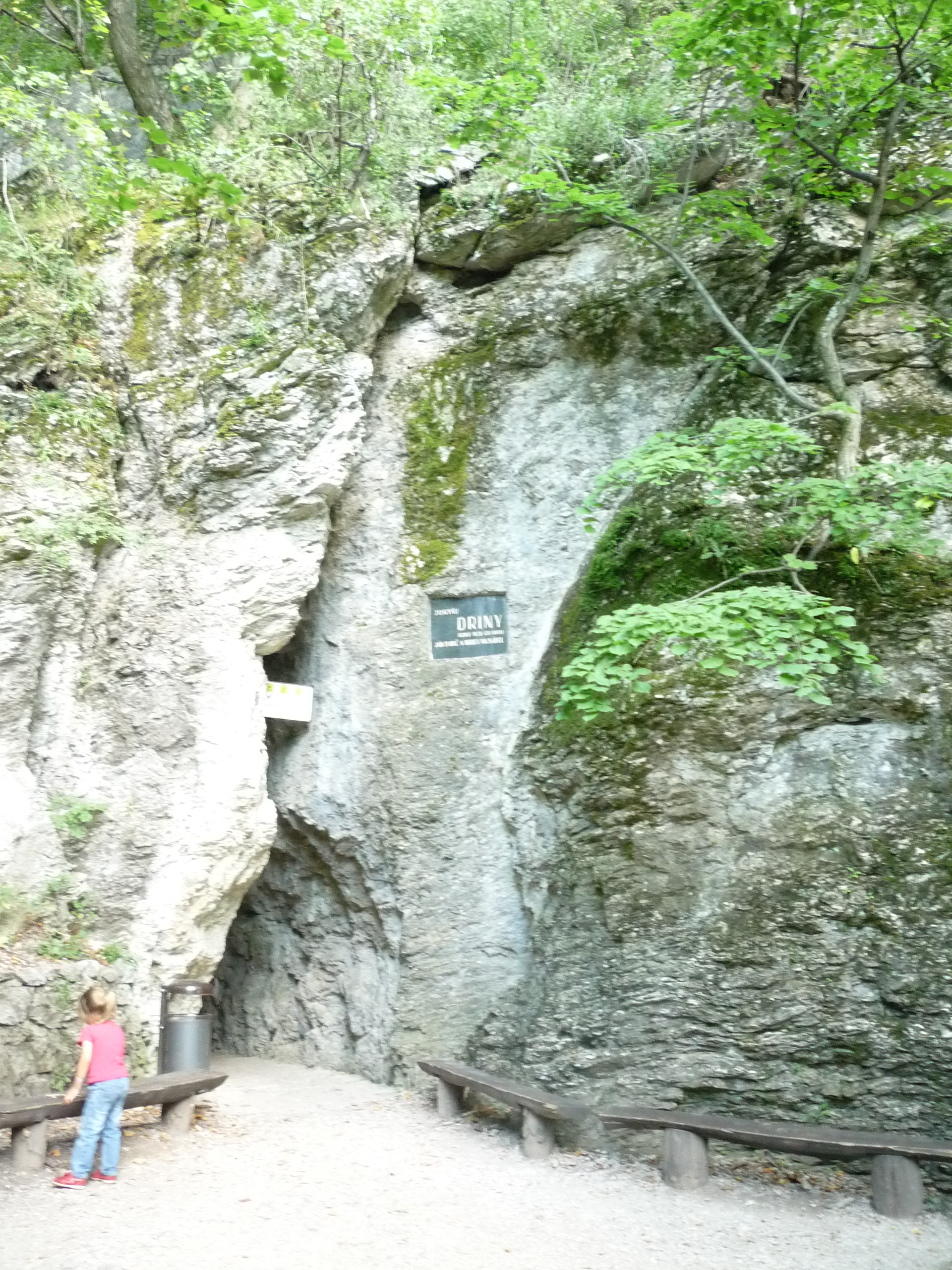 entrance of cave DRiny